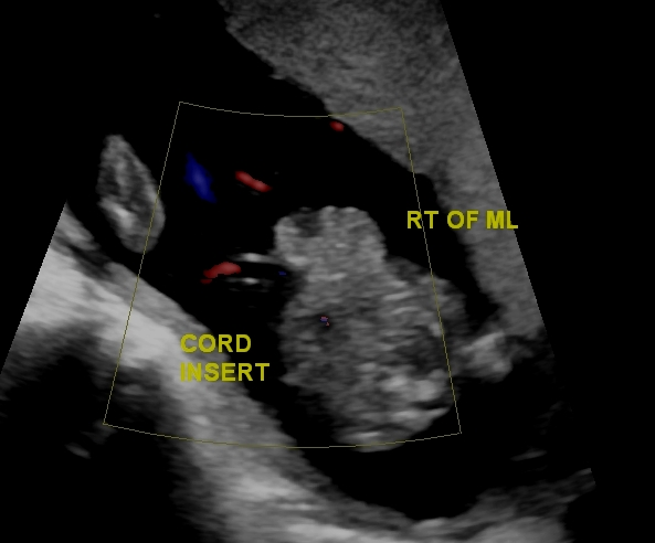 Gastrochisis ultrasound